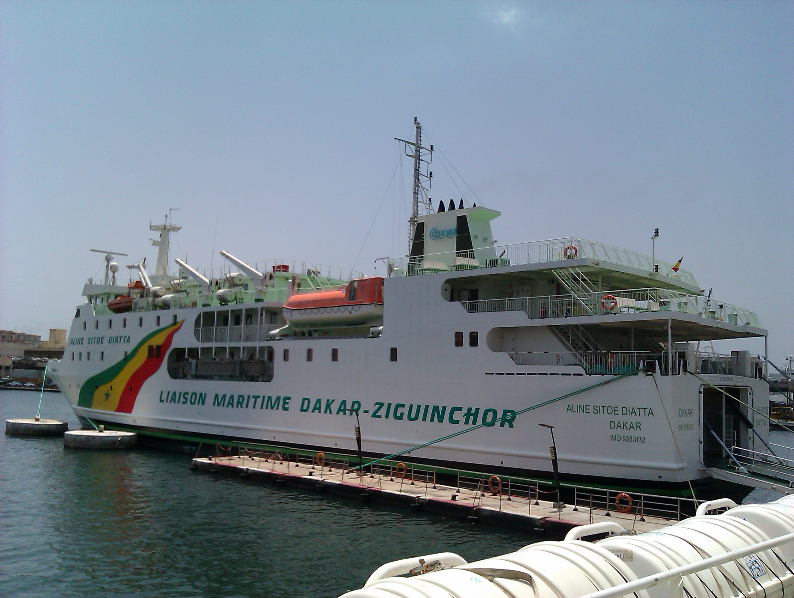 Aline Sitoe Diatta ferry